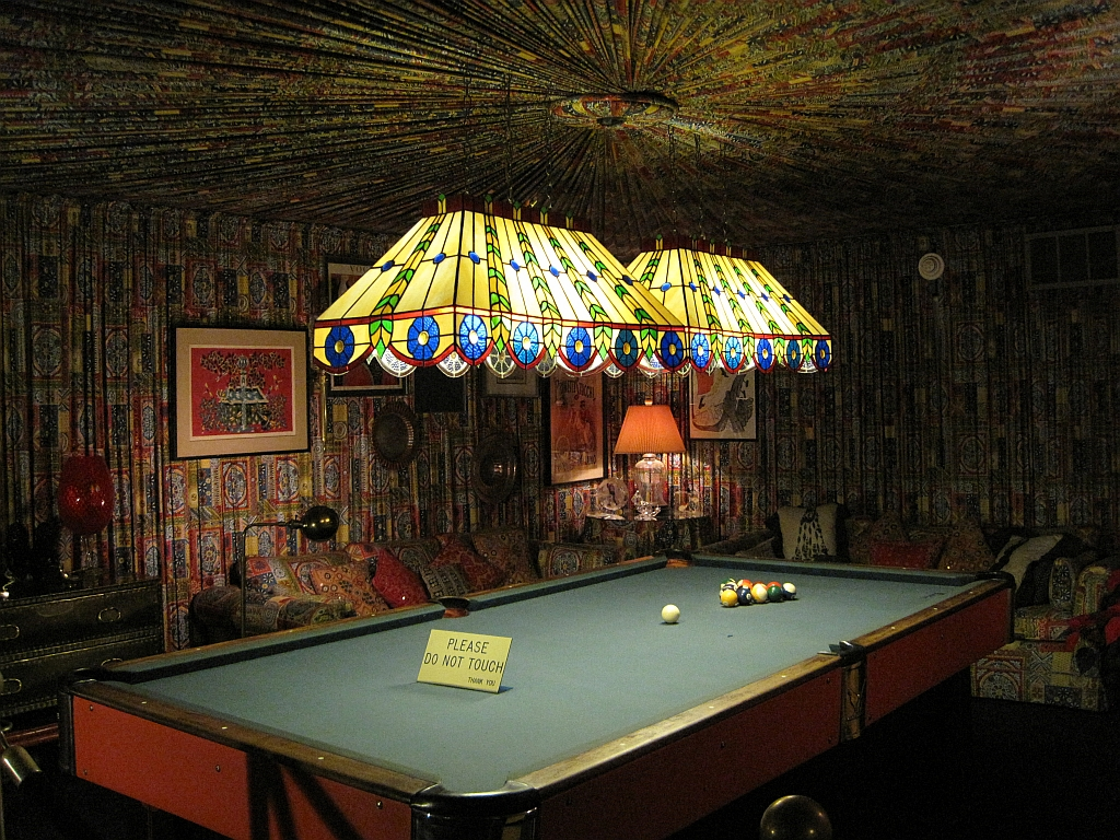 Graceland, Memphis, Tennessee. Pool room